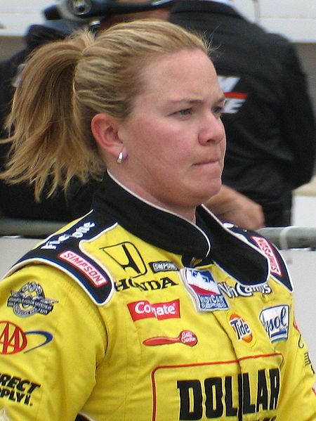 Sarah Fisher at the Indianapolis Motor Speedway for Pole day qualifications for the 2009 Indianapolis 500.